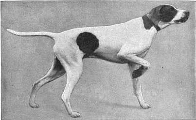 Pointer. (From Photo by Bowden Bros.)